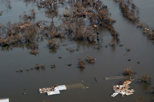 Flooding in Venice, Louisiana after Hurricane Katrina. Part of Venice, LA, on August 30, 2005. The southernmost permanently inhabited area on the Louisiana coast, Venice is located within a ring levee on the Mississippi River. The levee was ineffective during Hurricane Katrina. The entire town was flooded, oil-field vessels and barges were strewn haphazardly, and huge deposits of wrack were left on both sides of the ring levee on the west side of town.